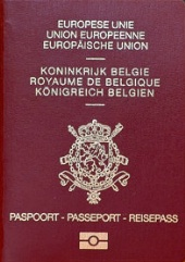 Kingdom of Belgium passport